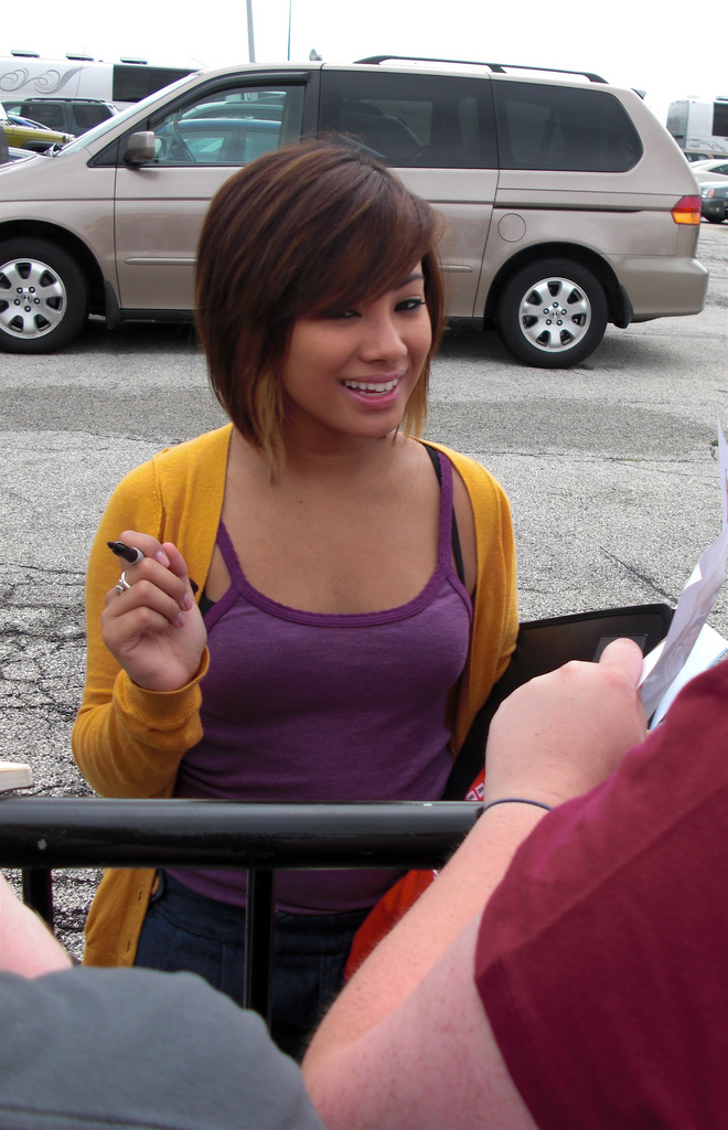 Ramiele Malubay signing autographs during the American Idols LIVE! Tour 2008 in Rosemont, Illinois, USA.